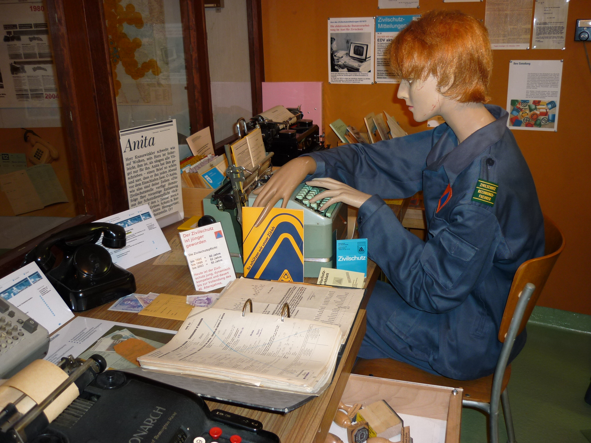 Zivilschutzmuseum, Zürich, Schweiz